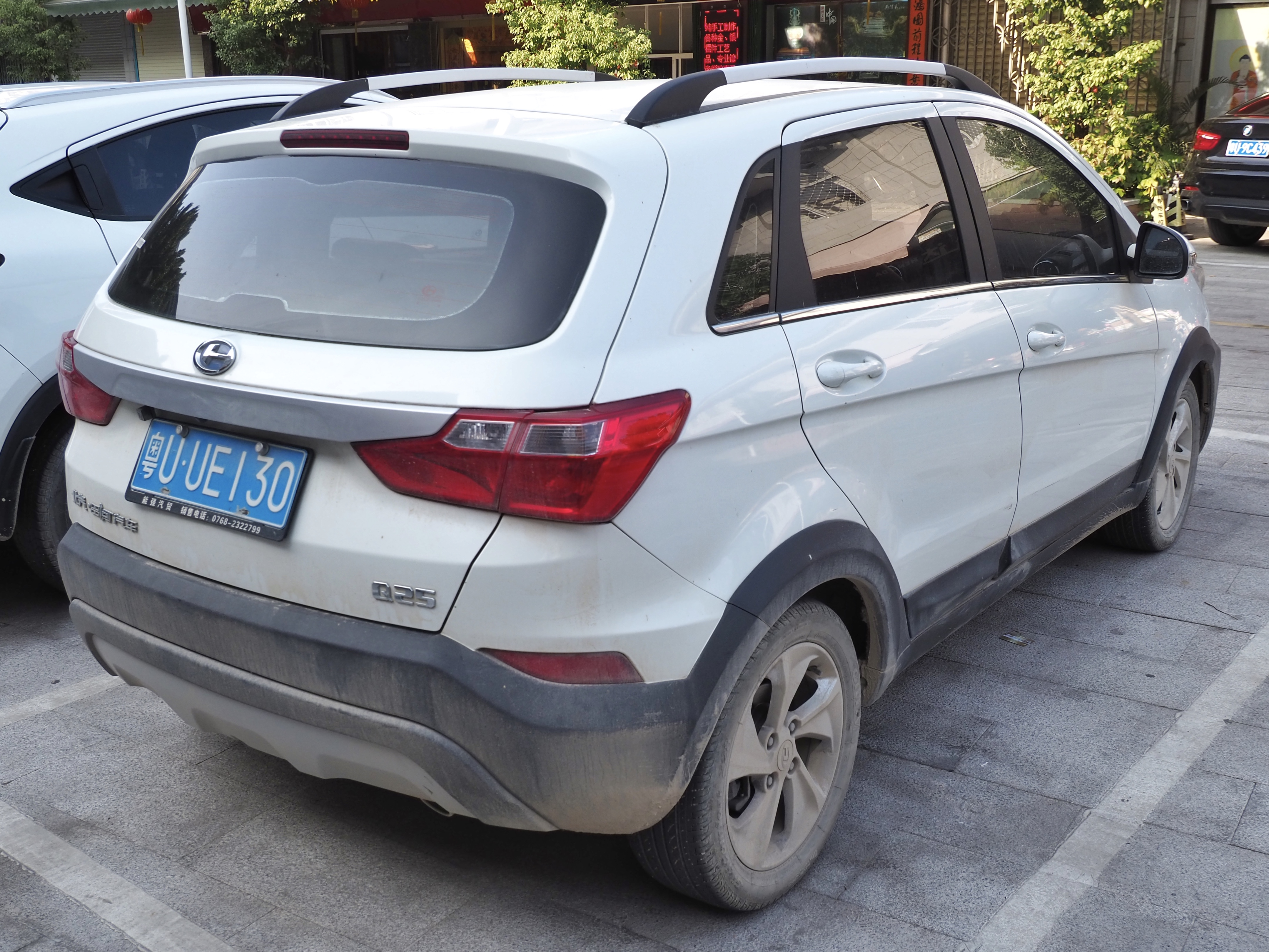 A 2016 BAIC Changhe Q25 photographed in Chaozhou, Guangdong Province, China. 中文（中国大陆）: 一辆2016年的北汽昌河Q25，拍摄于中国广东省潮州市。